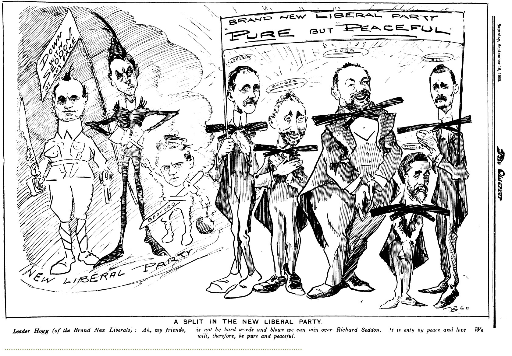 Cartoon showing divisions within New Liberal Party